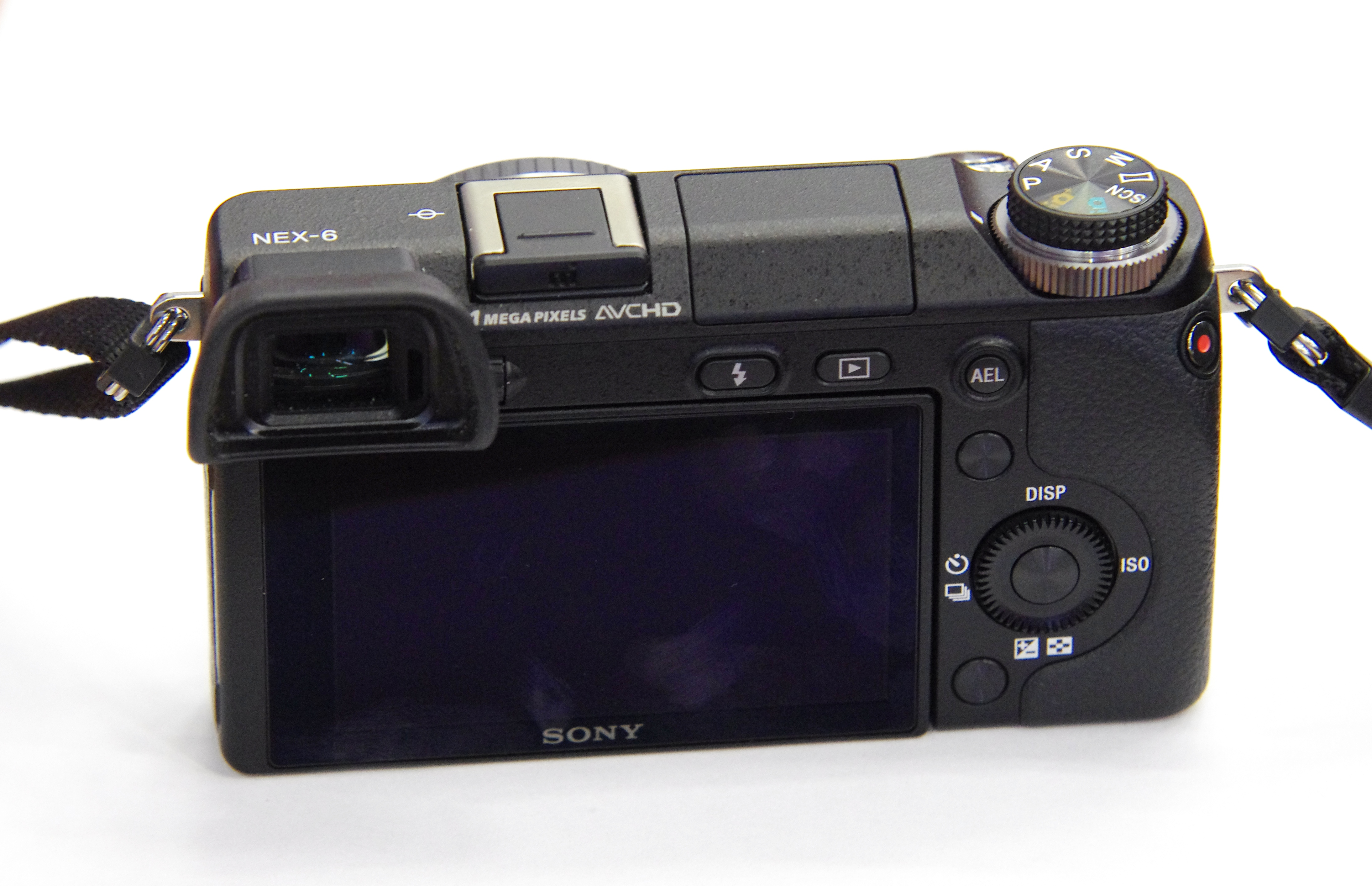 Sony Alpha NEX-6 mirrorless interchangeable lens camera.